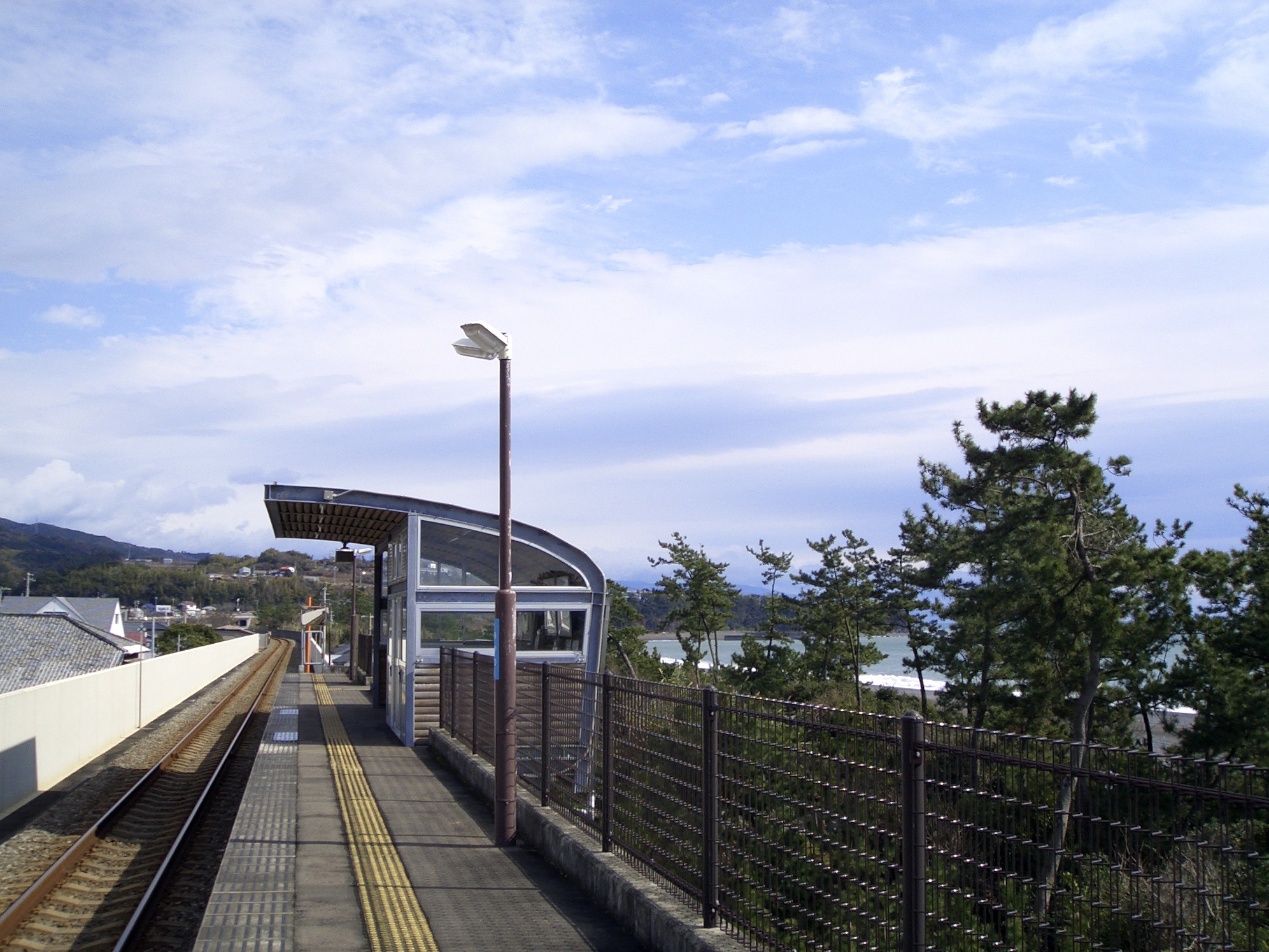 Akano Station in Aki, Kōchi pref., Japan.